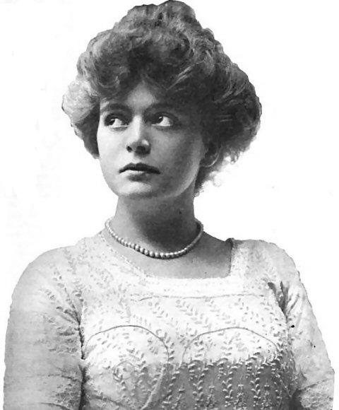 Actress Gertrude Bryan ca. 1912